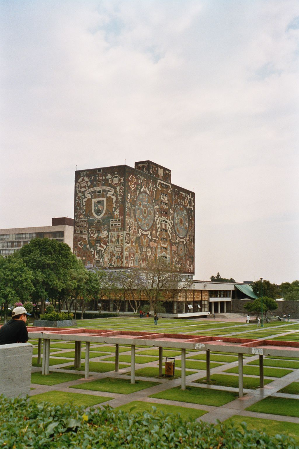 UNAM Central Library, Ciudad Universitaria, Mexico City.